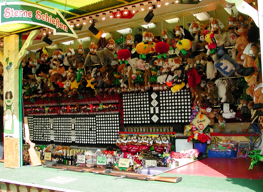 Shooting gallery